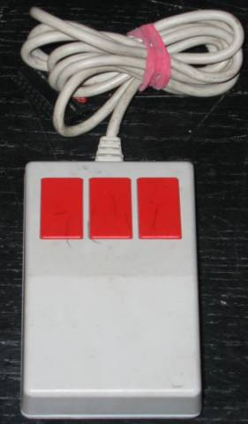 AMX Mouse (Type 2) (top). The AMX Mouse (Type 2) is almost identical to the Acorn Archimedes Mouse and unlike the Type 1 AMX Mouse, I have seen it in an advertisement for the AMX Mouse for the Electron. It is a 3 button mouse, which connects to the user port. The serial no. is 130137. The top of the mouse and the red 3 buttons.